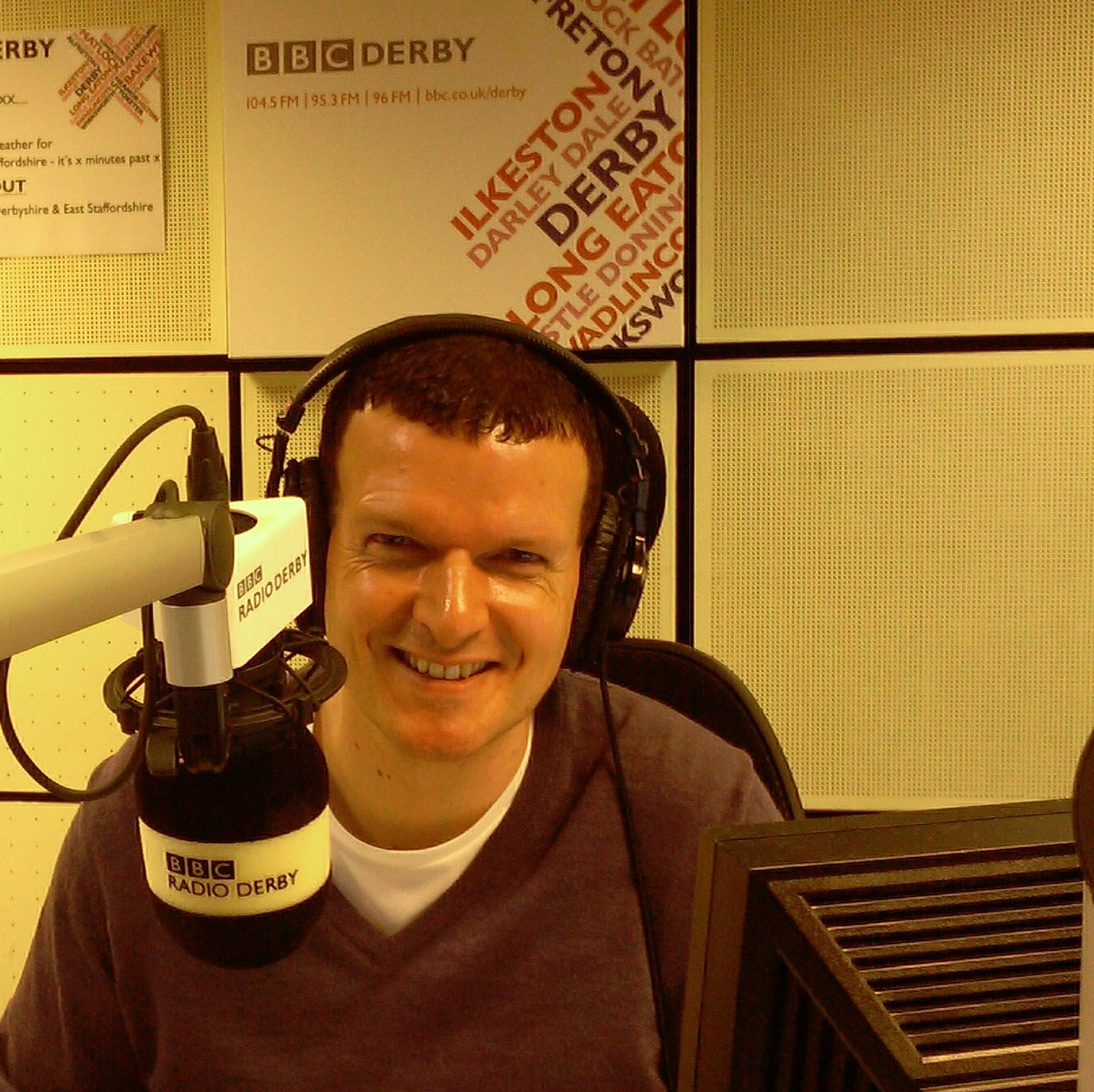 Phil Trow today interviewing Wikimedia people about Derby Museums work